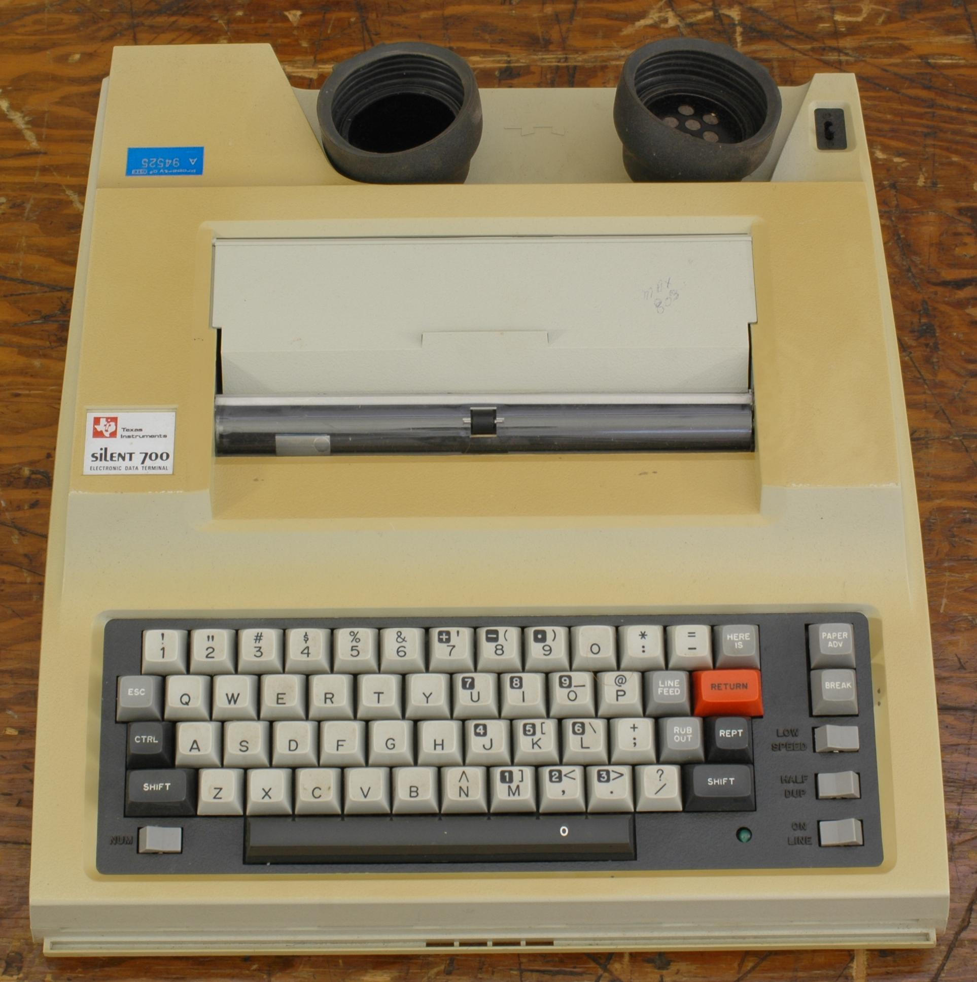 TI Silent-700 portable terminal. From the collection of the RCS/RI.